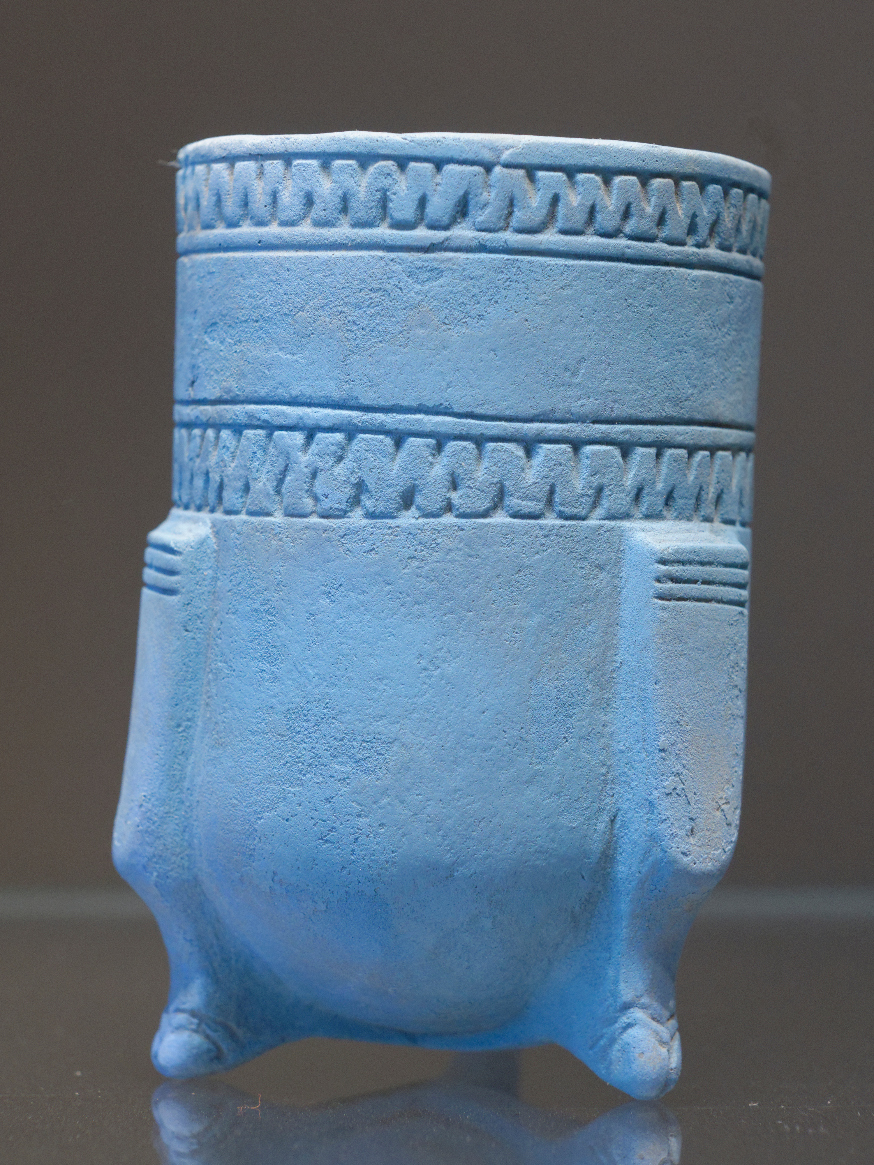 "Egyptian blue" tripodic beaker imitating lapis lazuli. South Mesopotamia.